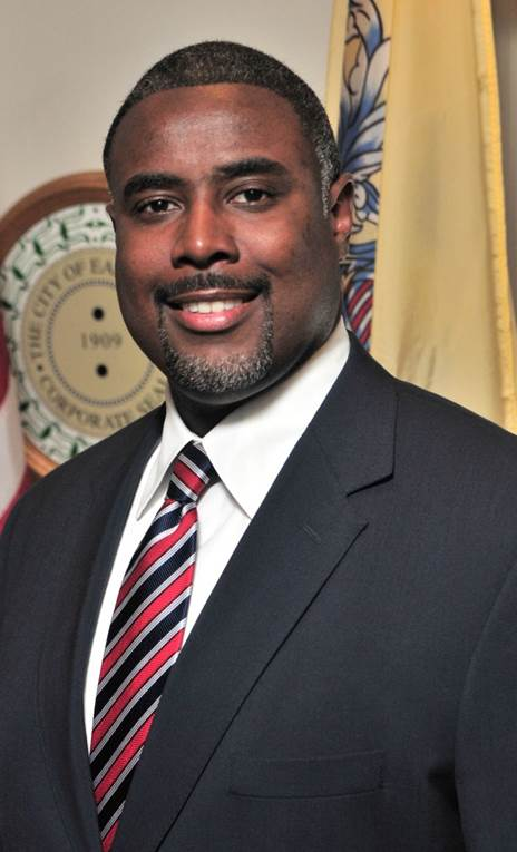 Lester E Taylor III, Mayor of East Orange